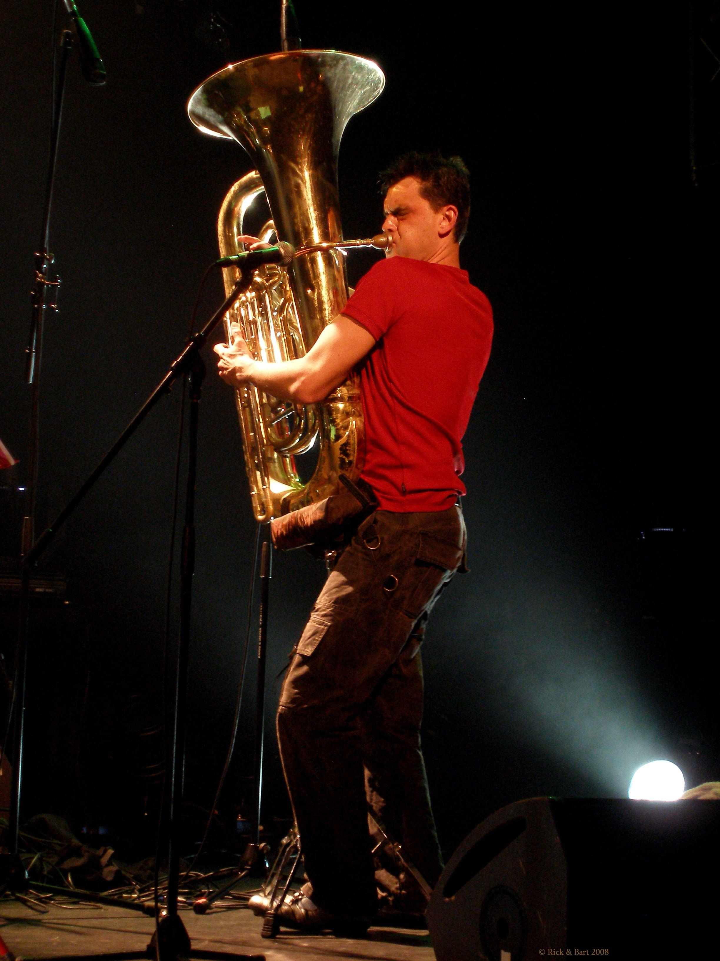 Michel Massot (Concert of Trio Grande + Mathew Bourne in the "BOTANIQUE" in Brussels on friday April 18, 2008)